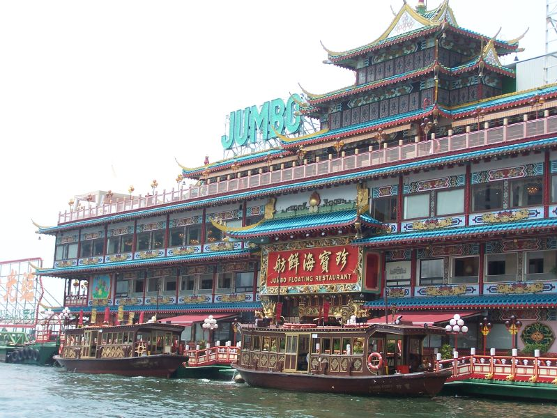 Jumbo Kingdom, floating restaurant in Aberdeen Harbour, Hong Kong, from waterside.